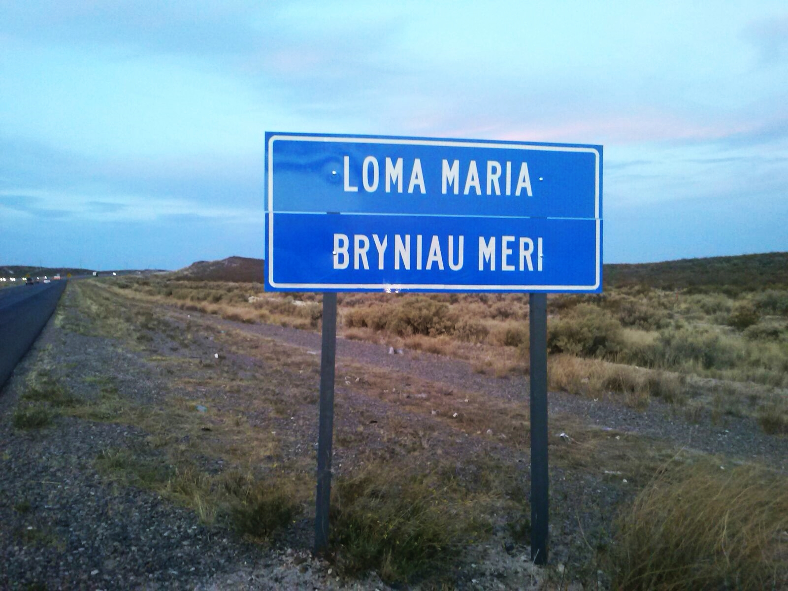 Loma María (Mary's Hill), Chubut Province, Argentina.